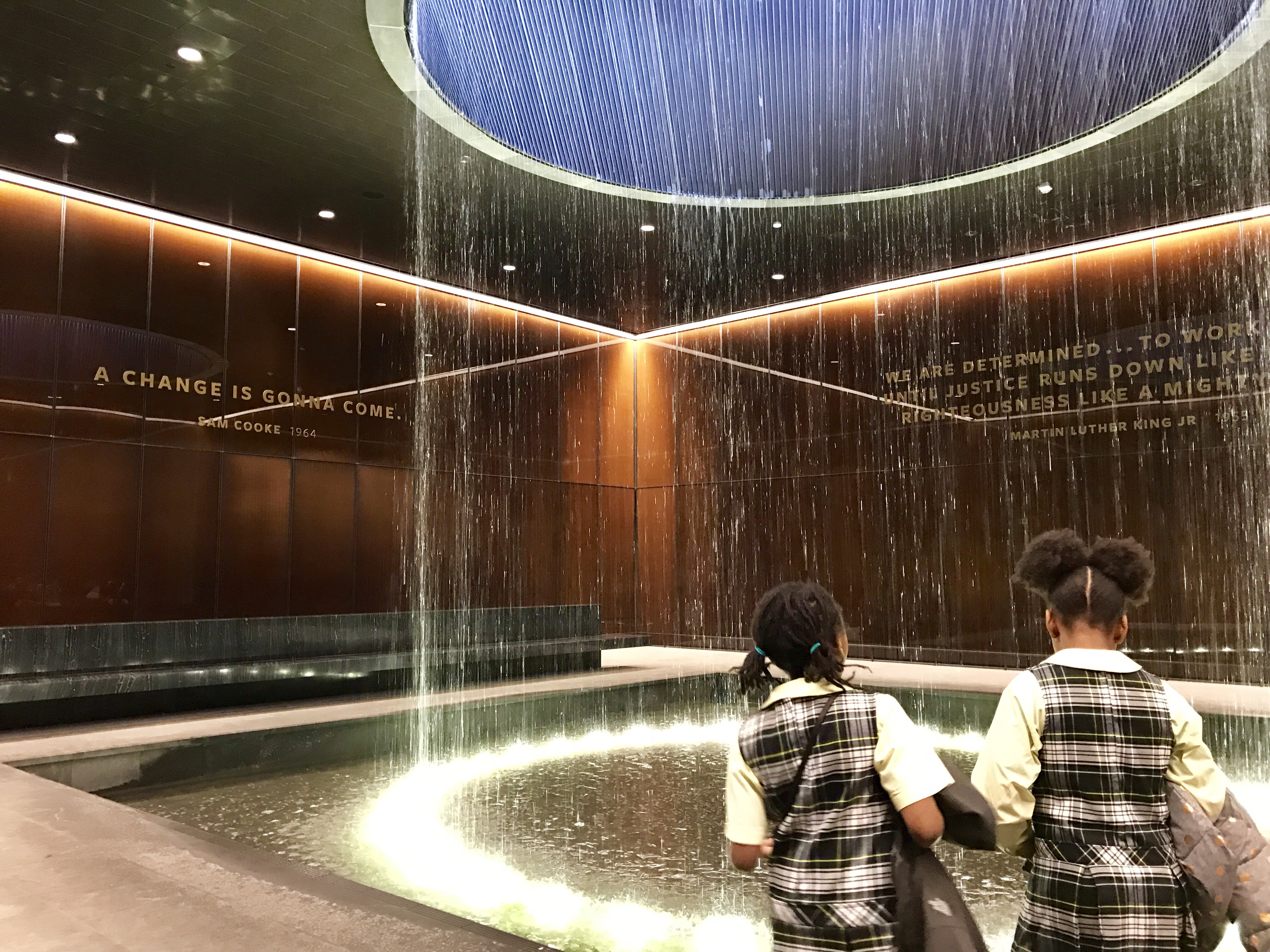 National Museum of African American History and Culture (NMAAHC), Washington, D.C.